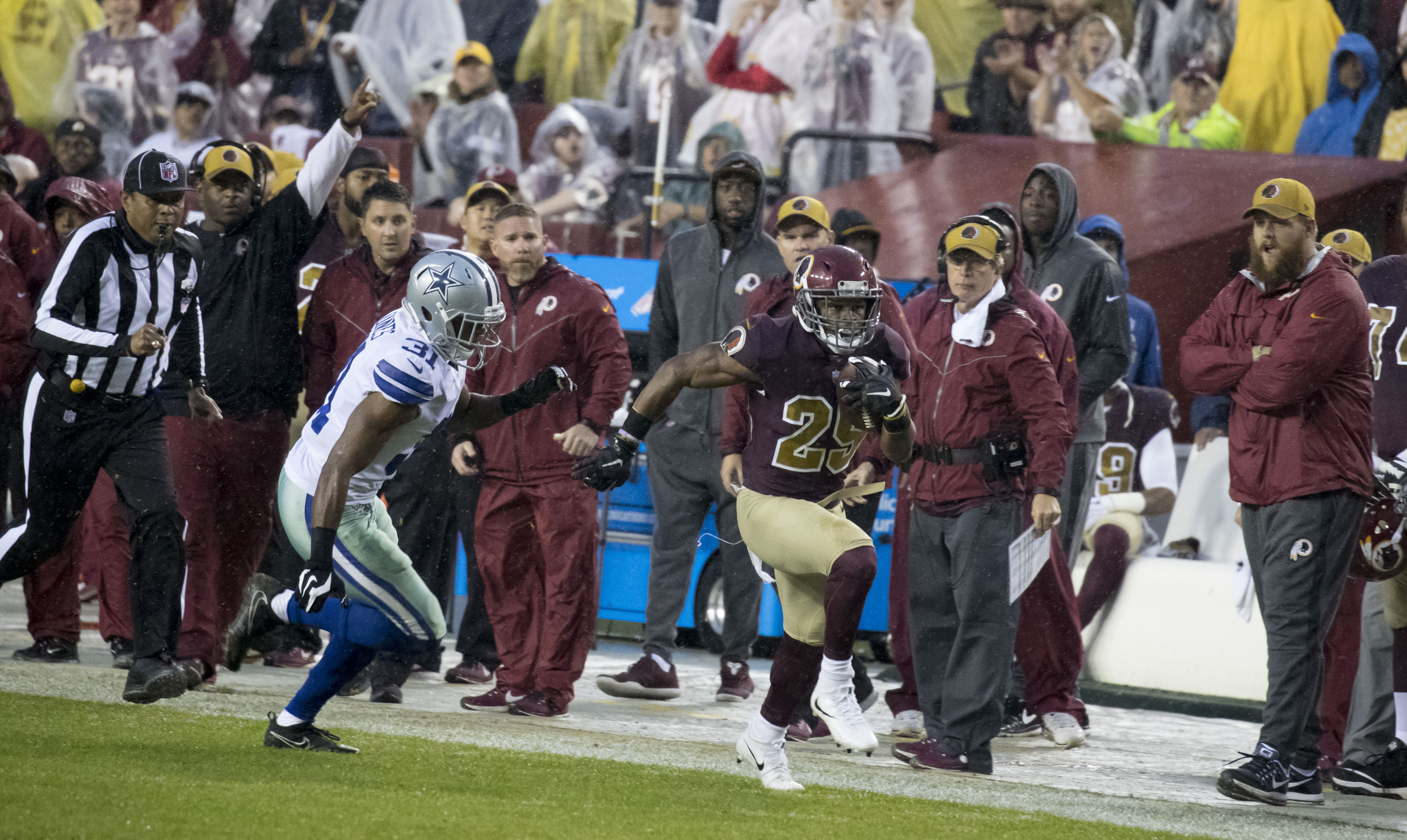 Cowboys at Redskins 10/29/17